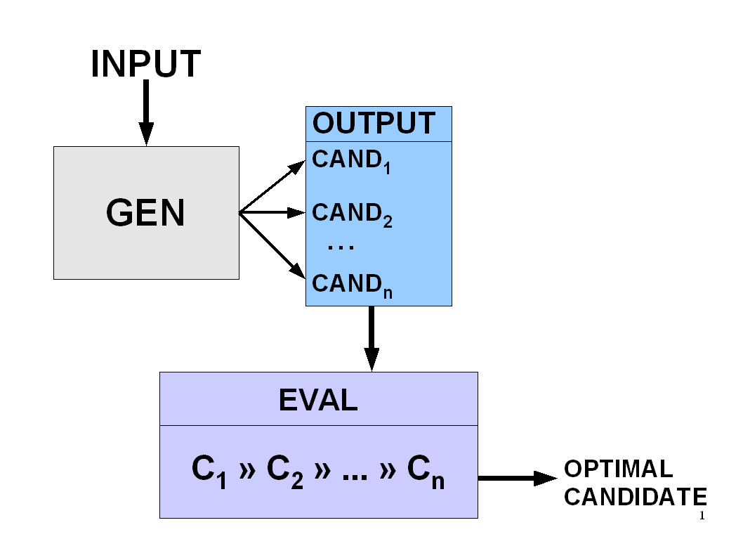 schematic view on the core of optimality theory